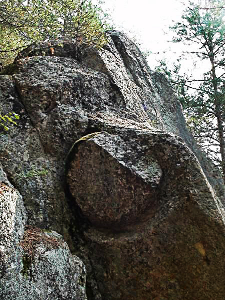 Solar shrine Beraintzi BG